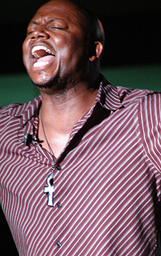 Gary Jenkins during a stage play performance